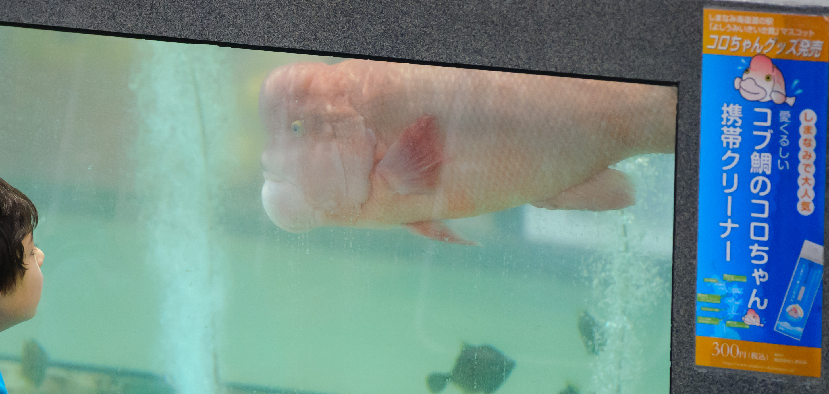 Picture of the sort-of-famous Asian sheepshead wrasse "Koro-chan" at Yoshiumi Ikiiki Kan in Imabari City, Ehime Prefecture, Japan. It's not a good picture, but it's better than what Asian_sheepshead_wrasse has at the moment, which is nothing.